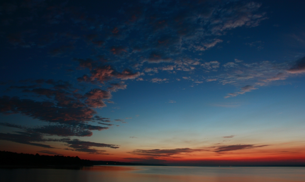 Morning breaking on the upper lake at Sardis Dam, Sardis Lake, MS.